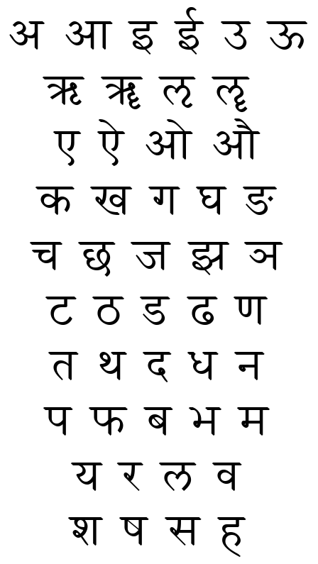 Devanagari letters.